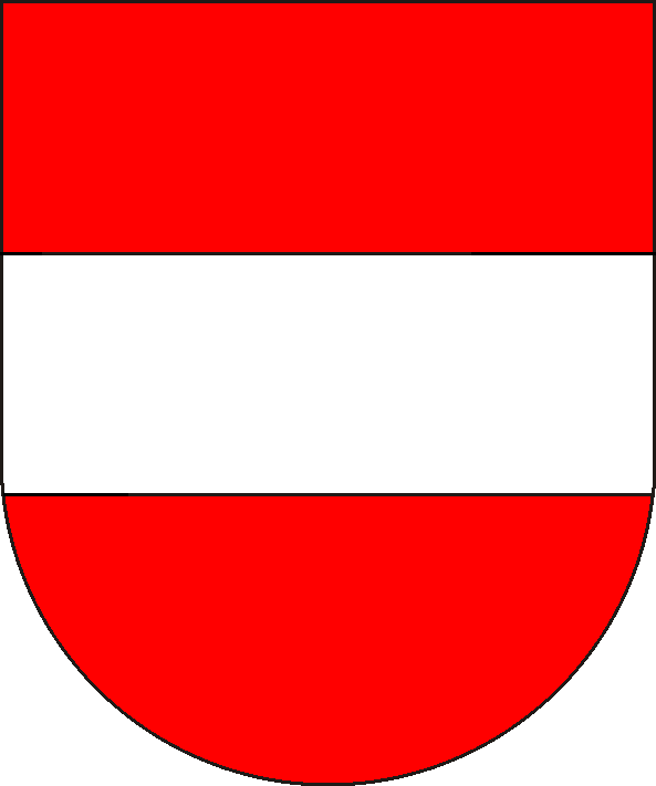 Coats of arms of the duke of Lower Lorraine